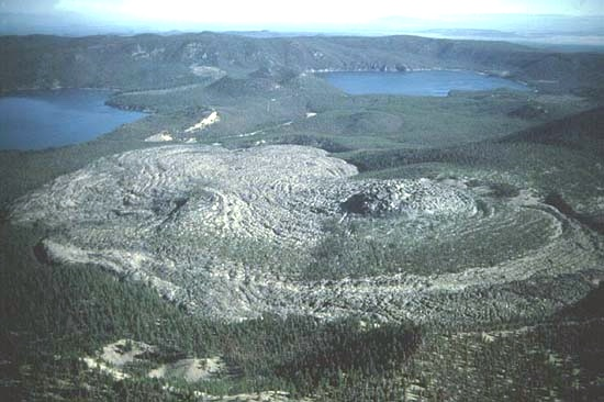 Aerial view of Big Obsidian Flow from the south. Paulina Lake (left) and East Lake (right) in distance. At Newberry National Volcanic Monument, Oregon